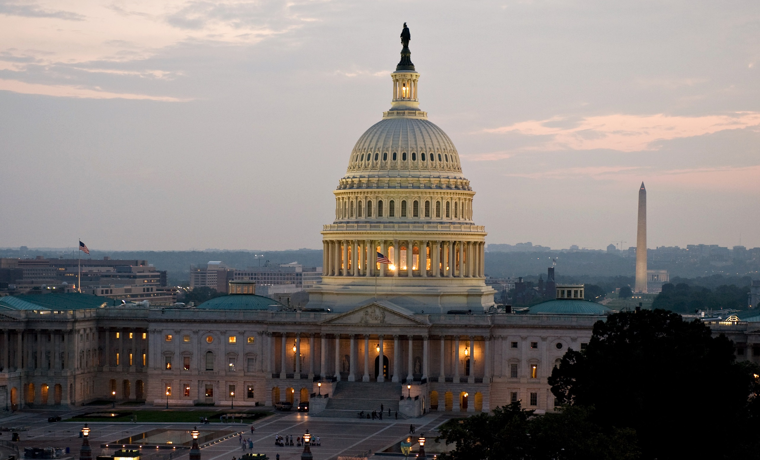 The East Front of the U.S. Capitol Building at dusk. This official Architect of the Capitol photograph is being made available for educational, scholarly, news or personal purposes (not advertising or any other commercial use). When any of these images is used the photographic credit line should read “Architect of the Capitol.” These images may not be used in any way that would imply endorsement by the Architect of the Capitol or the United States Congress of a product, service or point of view. For more information visit